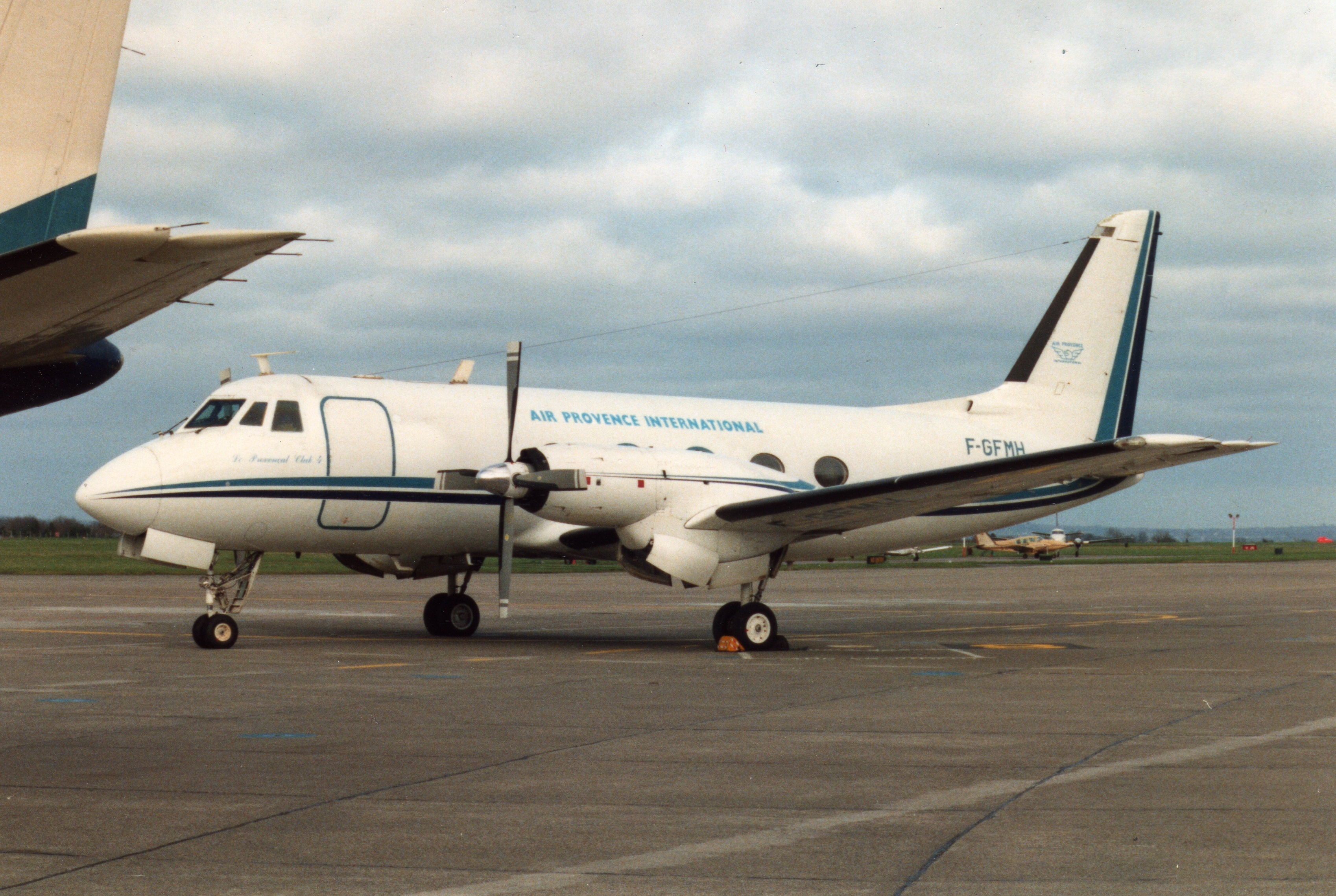 Air Provence International (F-GFMH) Grumman G-159 Gulfstream I aircraft, Dublin Airport, Dublin, Republic of Ireland, February 1993